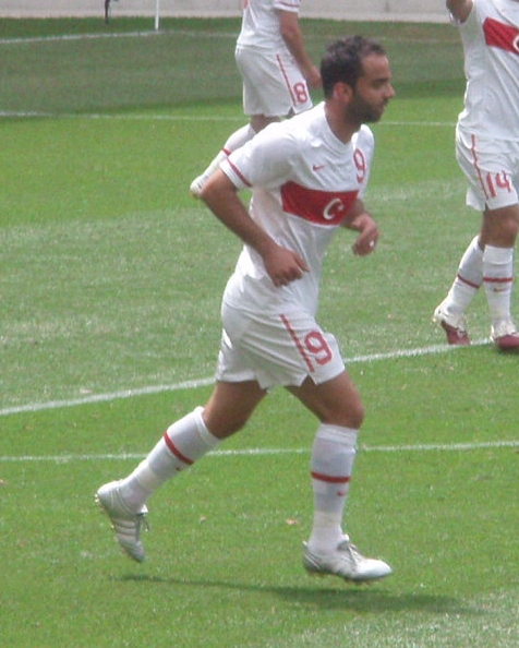 Semih Şentürk playing for the Turkish National Football Team